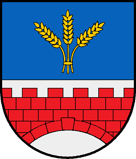 Coat of arms of the municipality Tremsbüttel in Schleswig-Holstein, Germany.